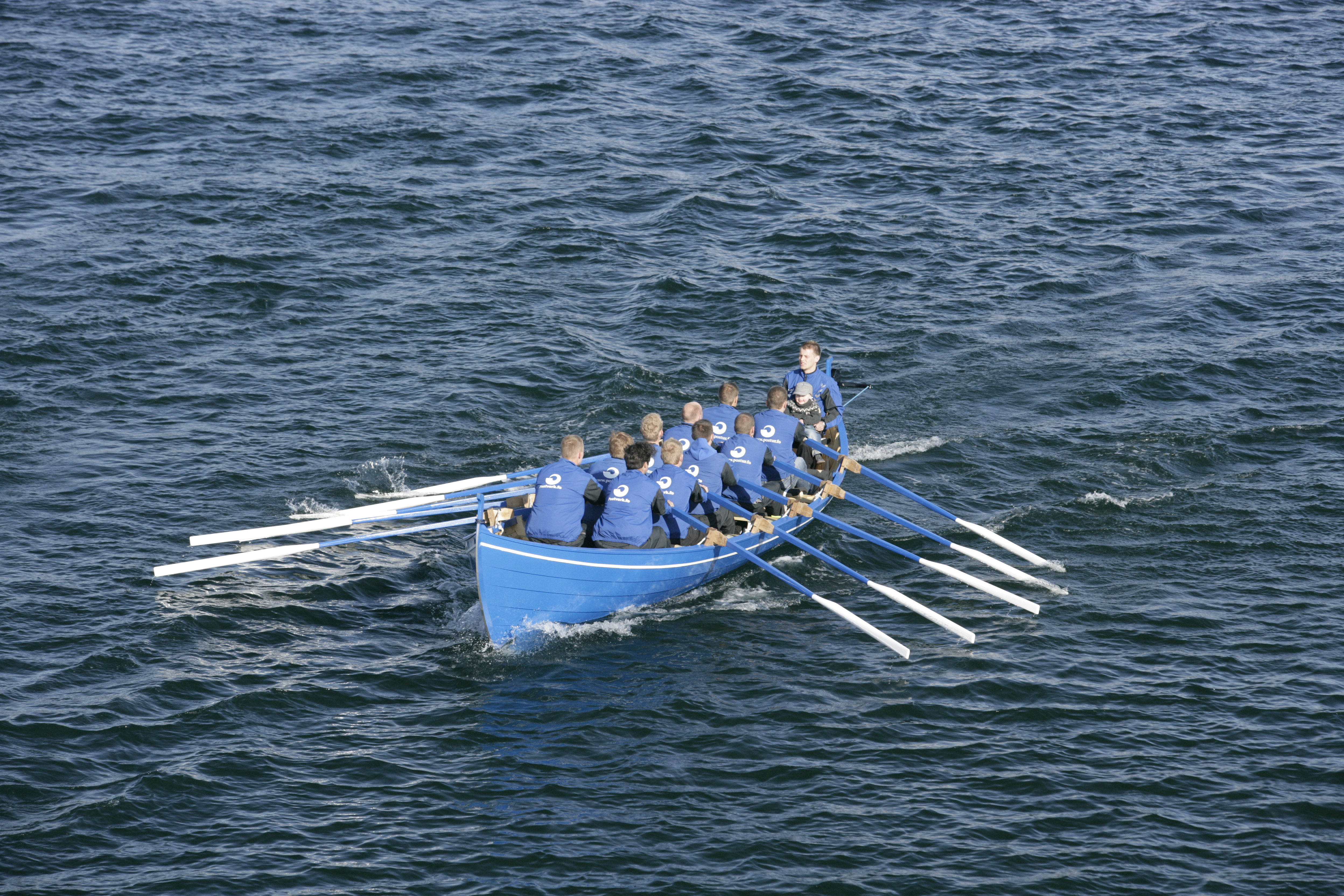 'Ormurin Langi' a Faroese rowing boat, 26 ft.